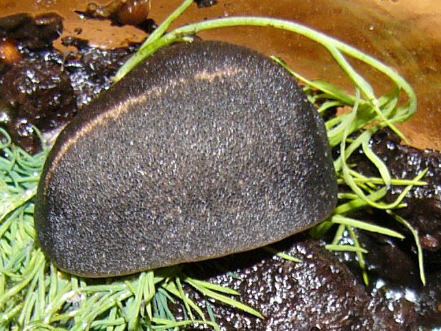 4 cm small (full length) slug Laevicaulis alte (Férussac, 1822).